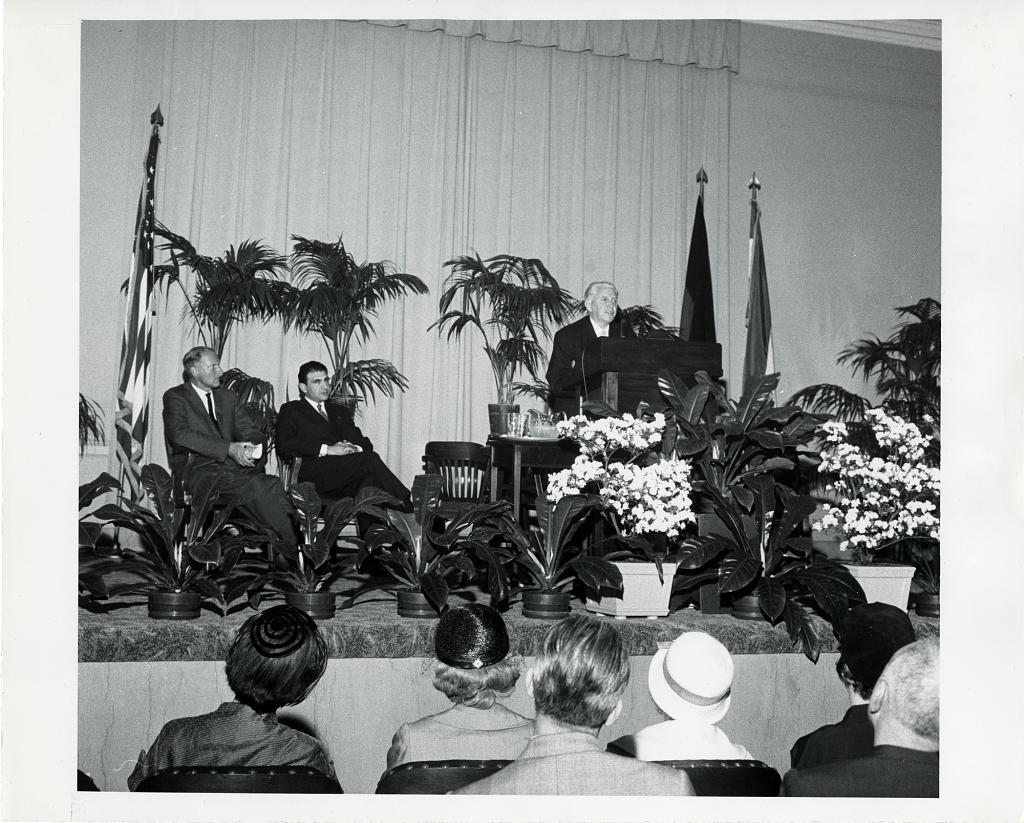 Professor Ernst Kühnel of Berlin, Germany, delegate to the Fourth Congress of the International Association for Iranian Art and Archeology, makes a speech of acceptance after he is awarded the Freer Bronze Medal during ceremonies at the Freer Gallery of Art. Dr. Kühnel was given the medal in recognition of his outstanding achievements and contributions to Near Eastern art. Seated on the stage (left to right) are Franz Krapf, Minister from the Germany Embassy; and his excellency, Ardeshir Zahedir, Iran's Ambassador to the United States